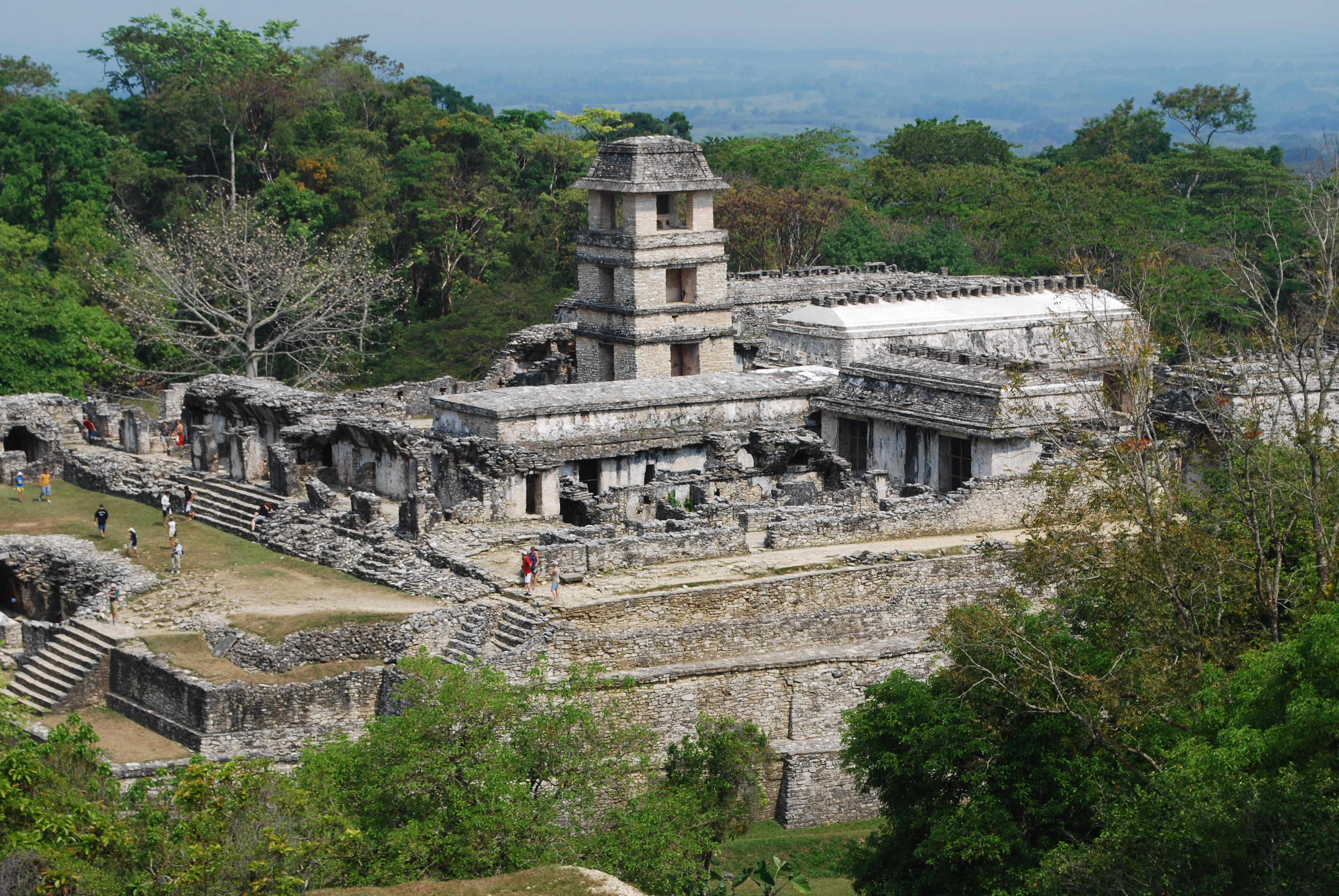 The Palace as seen from the Temple of the Cross at Palenque, Chiapas, Mexico